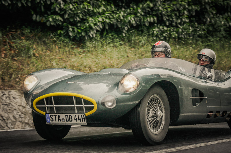 Aston Martin DBR1 replica, at 1000 Miglia 2012 (not official participant though).[1]